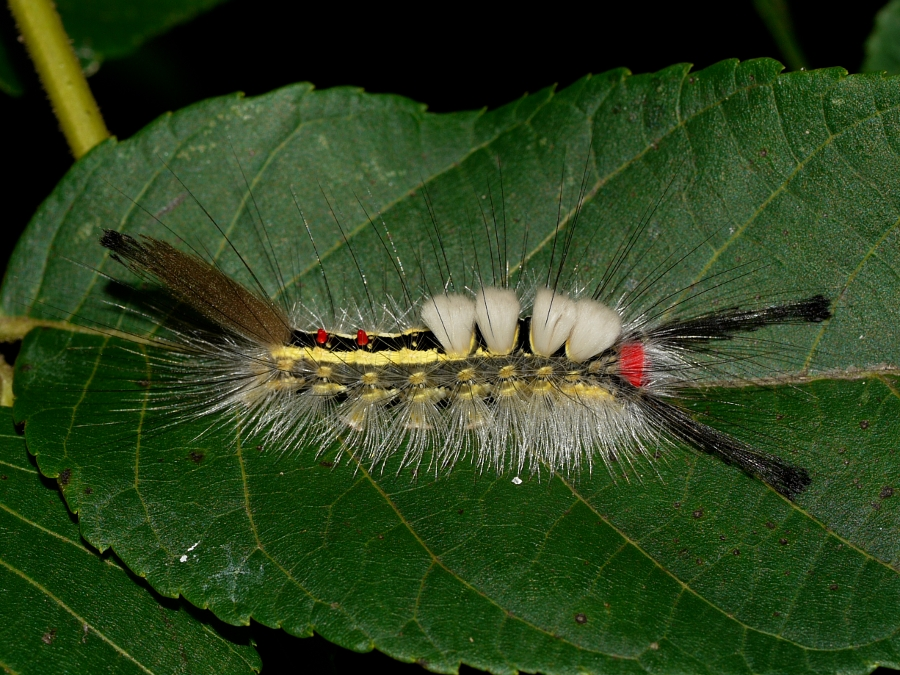 Caterpillar of the White-marked Tussock Moth - Hodges #8316